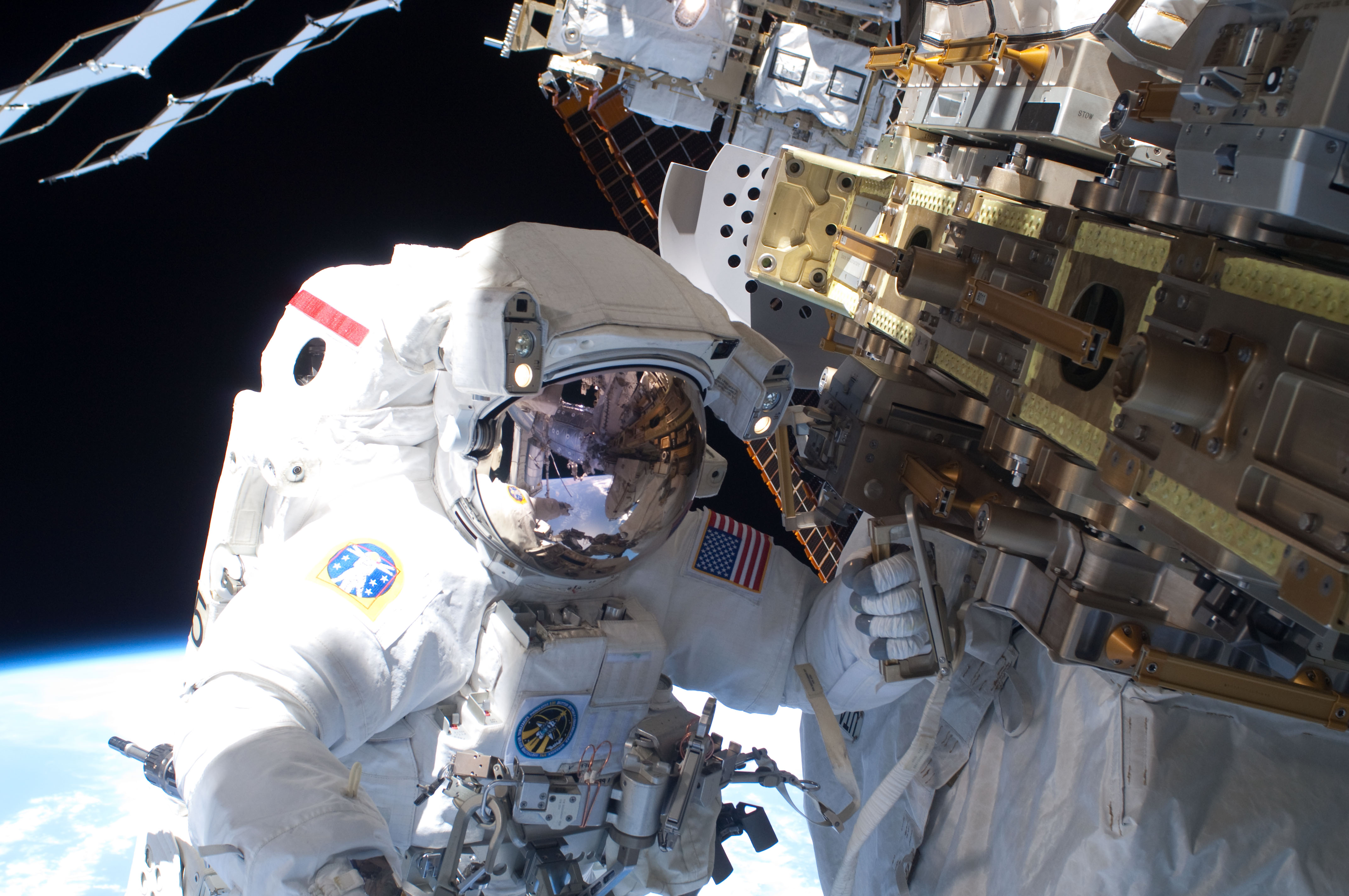 NASA astronaut Rick Mastracchio, STS-131 mission specialist, participates in the mission's first session of extravehicular activity (EVA) as construction and maintenance continue on the International Space Station. During the six-hour, 27-minute spacewalk, Mastracchio and astronaut Clayton Anderson (out of frame), mission specialist, helped move a new 1,700-pound ammonia tank from space shuttle Discovery's cargo bay to a temporary parking place on the station, retrieved an experiment from the Japanese Kibo Laboratory exposed facility and replaced a Rate Gyro Assembly on one of the truss segments.